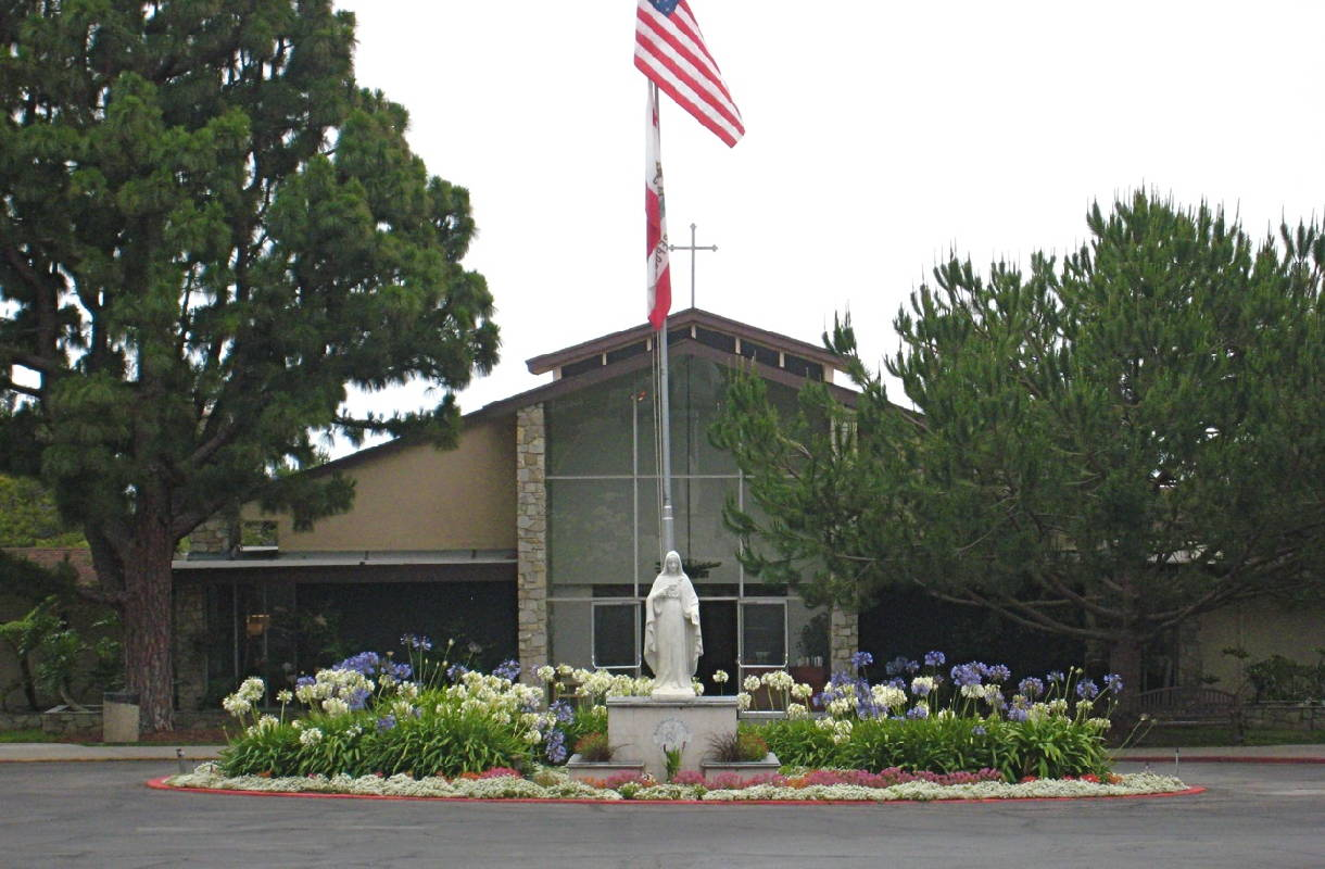 The driveway entrance to the campus of Marymount College in Rancho Palos Verdes, CA